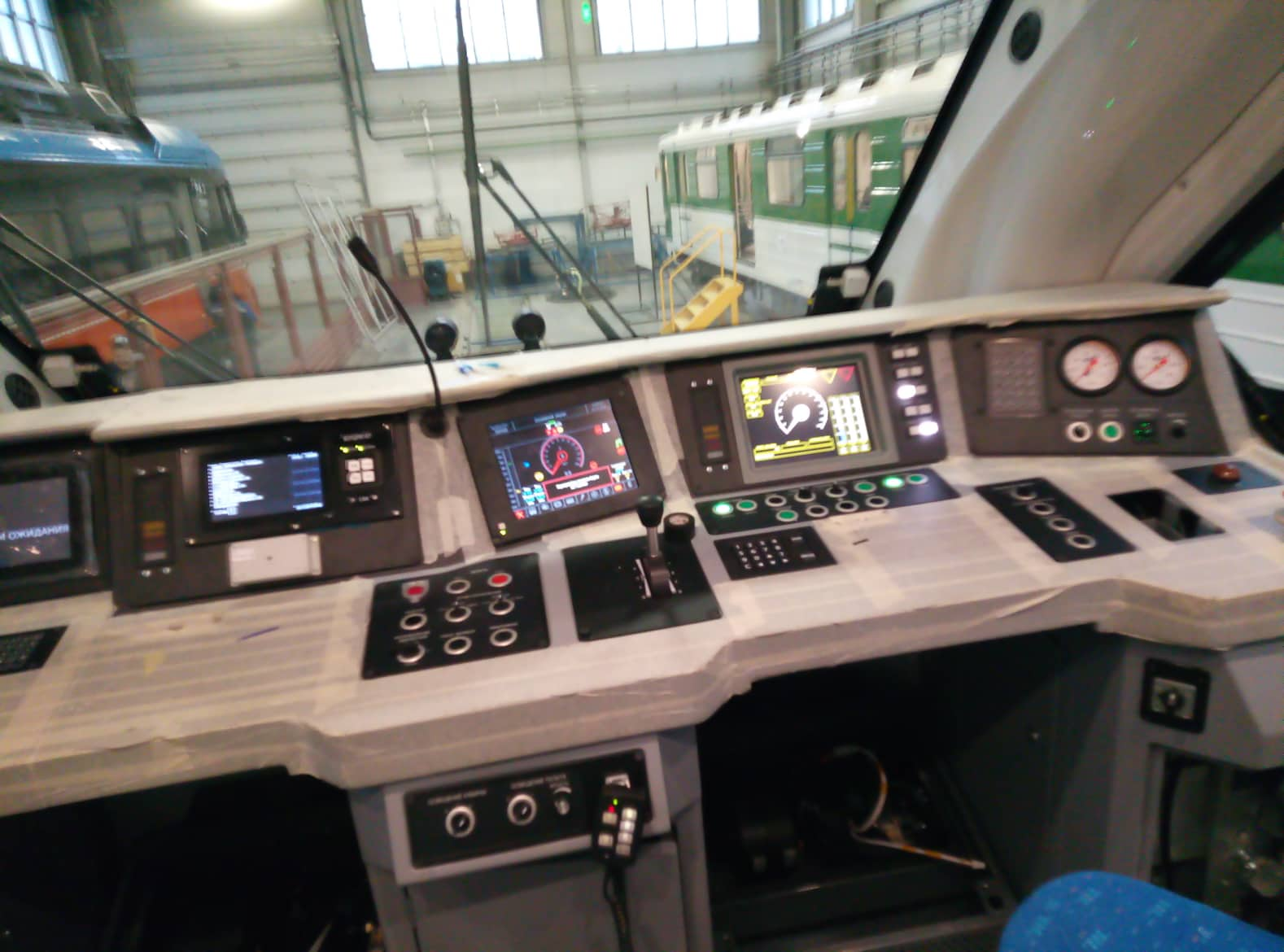 EMU class RA3 driving console